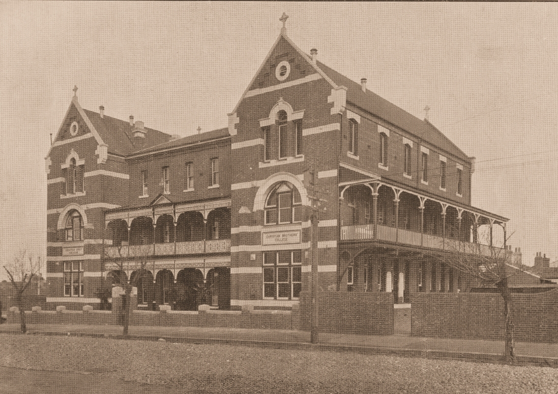 Photograph of St Joseph's CBC North Melbourne located in Queensberry Street. circa 1928.